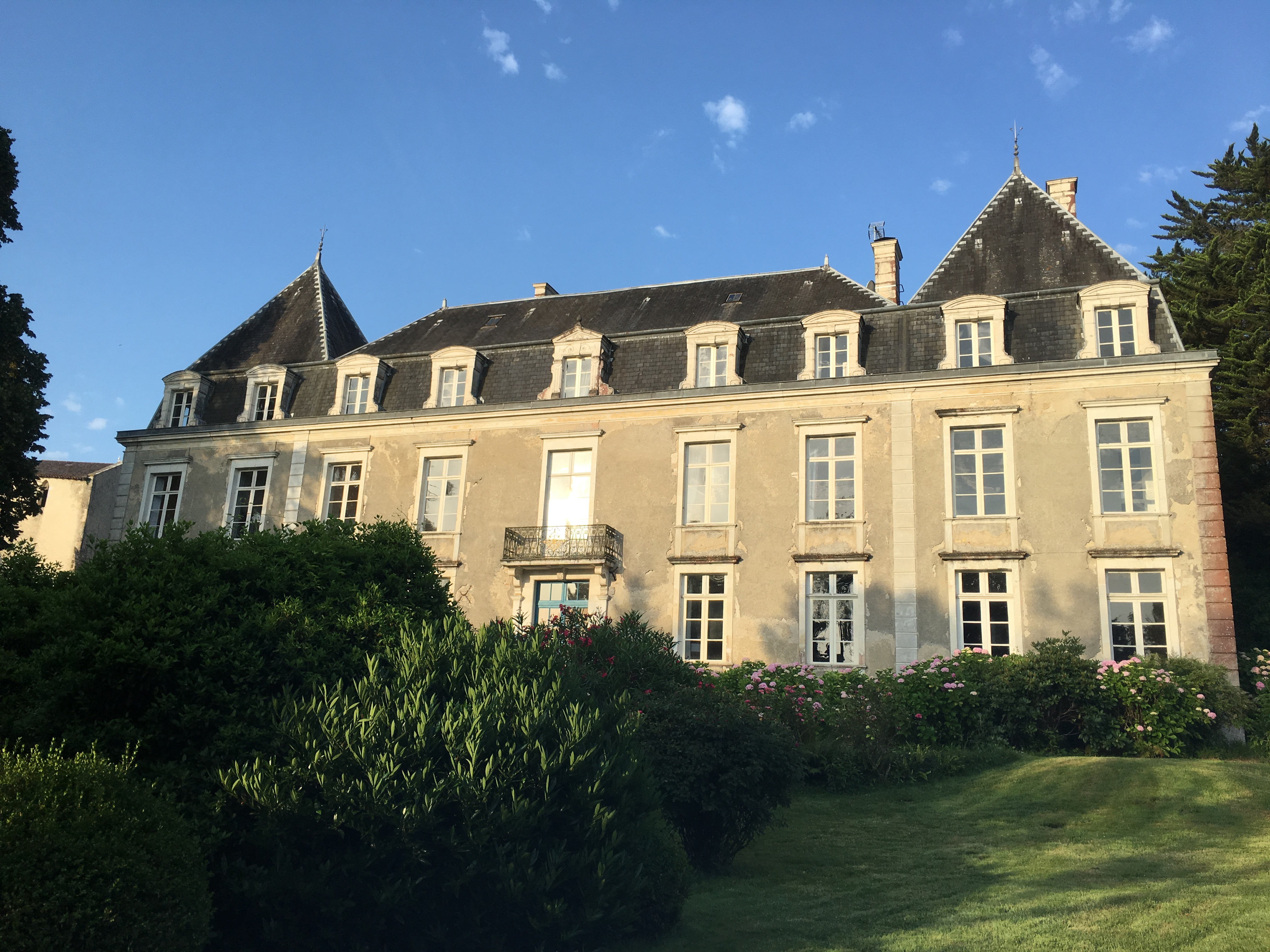 Facade principale du Chateau donnat sur les Gaves reunis